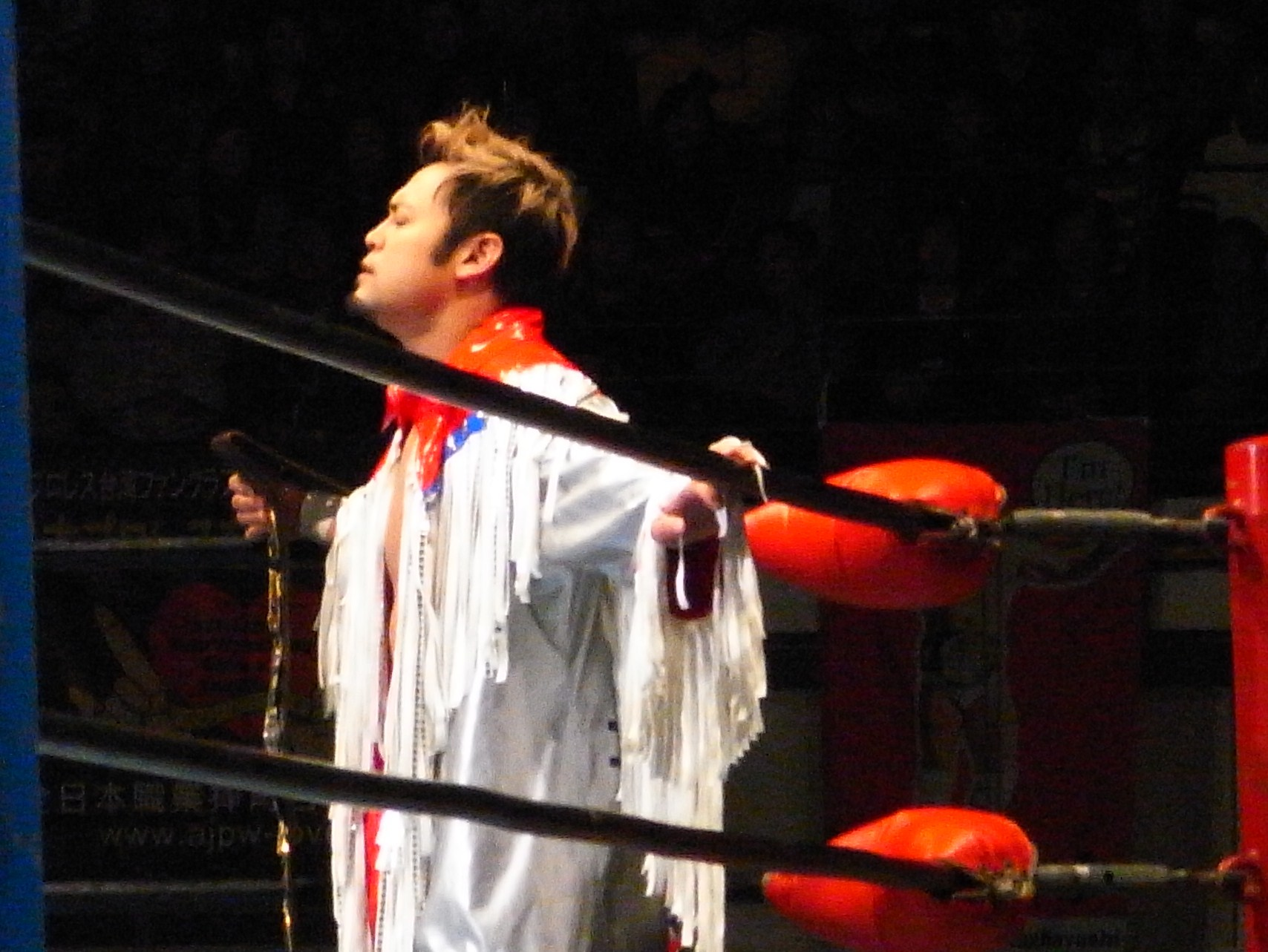 Kaz Hayashi at All Japan Pro Wrestling's LOVE in Taiwan show on November 5, 2010. He is holding the AJPW World Junior Heavyweight Championship in his right hand.